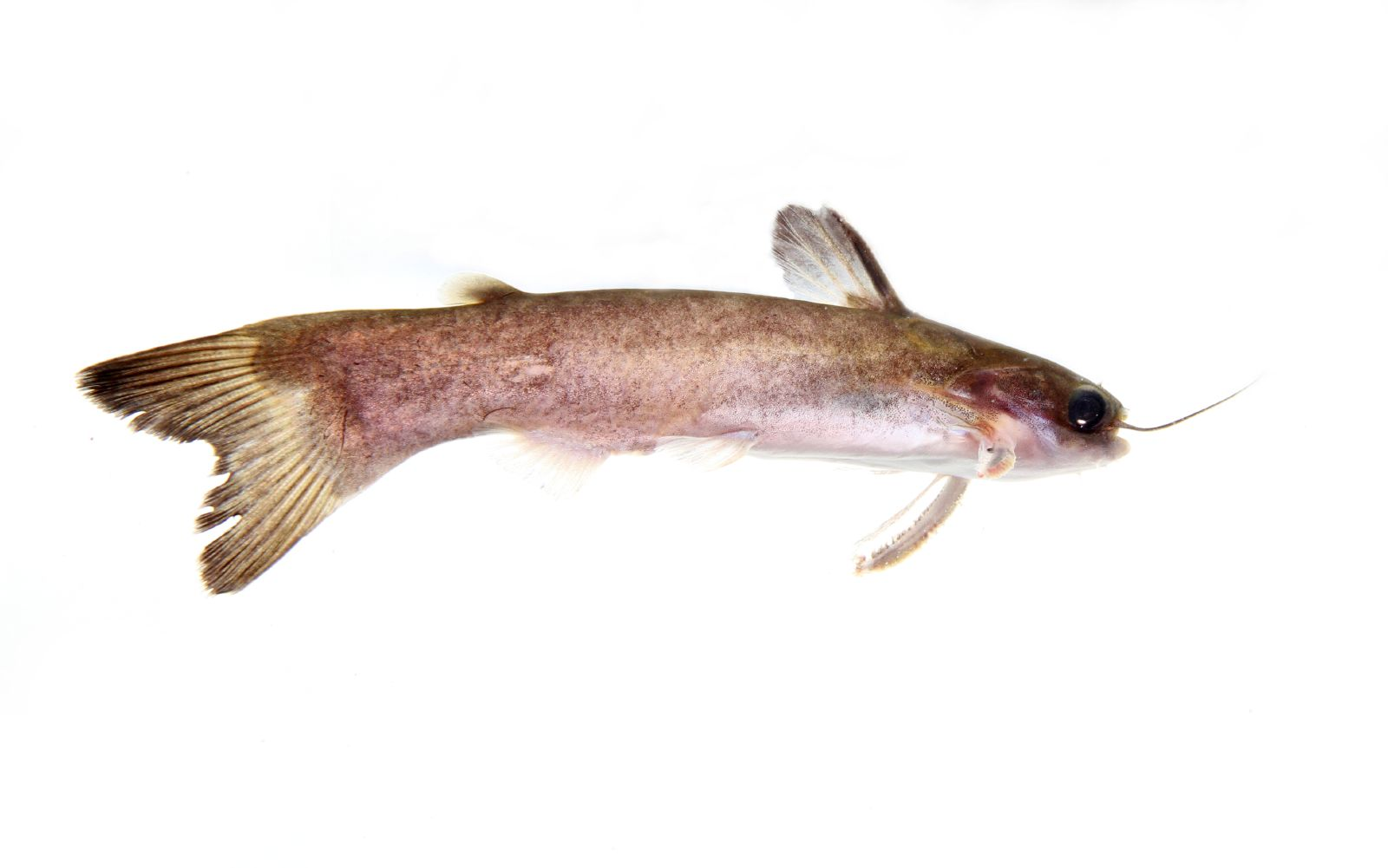 Auchenipteridae Tatia sp 2